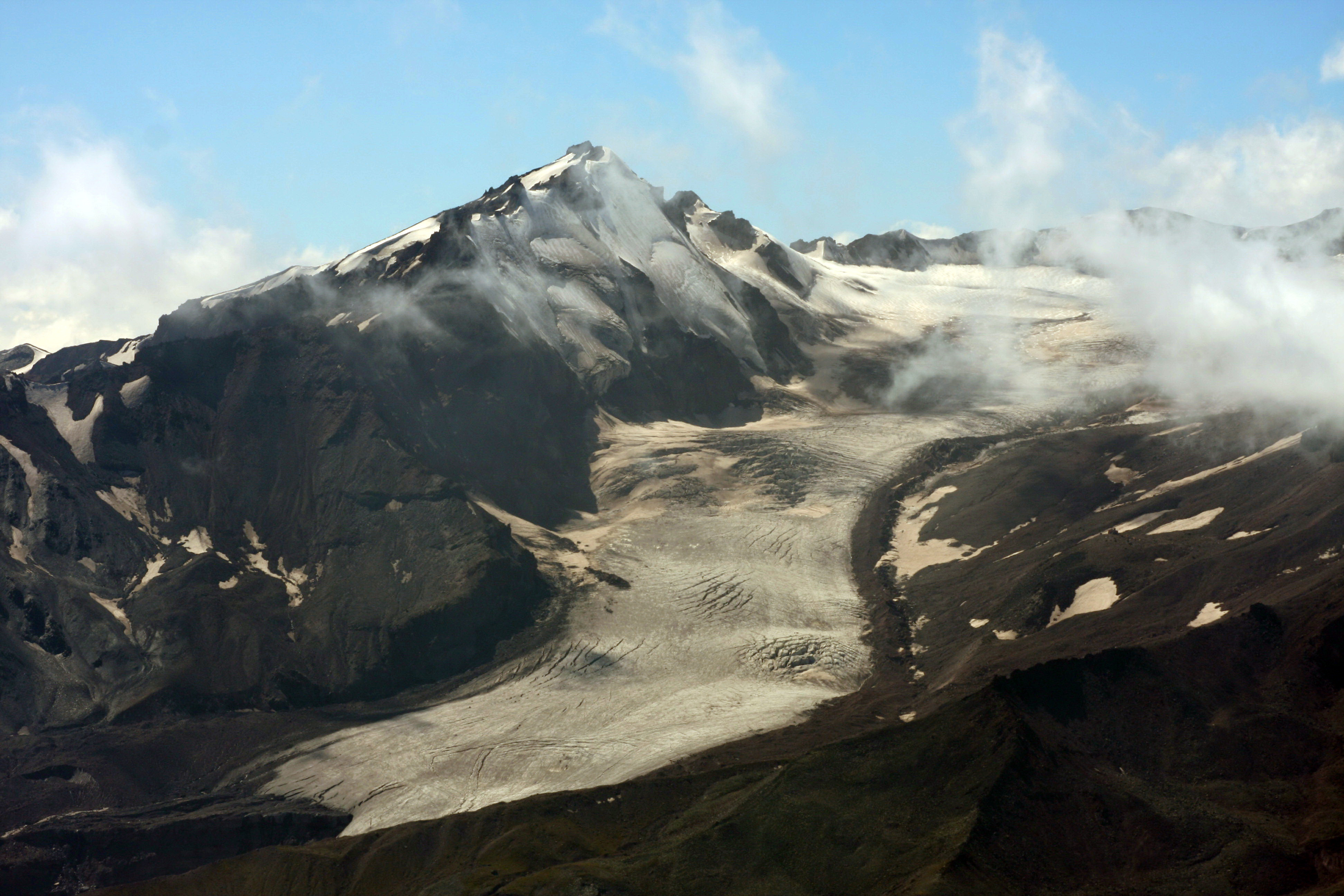 ორწვერი და გერგეტის მყინვარი